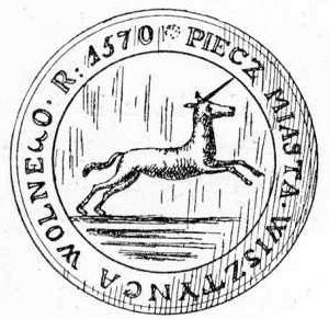 Seal of the city Vištytis, around 1570, the Polish inscription and coat of arms Unicorn, illustration to Zygmunt Gloger, Old Polish Illustrated Encyclopedia, volume II, 305.